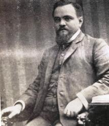 Arandzar (Misak Kuyumchian) (1877-1913) - armenian writer